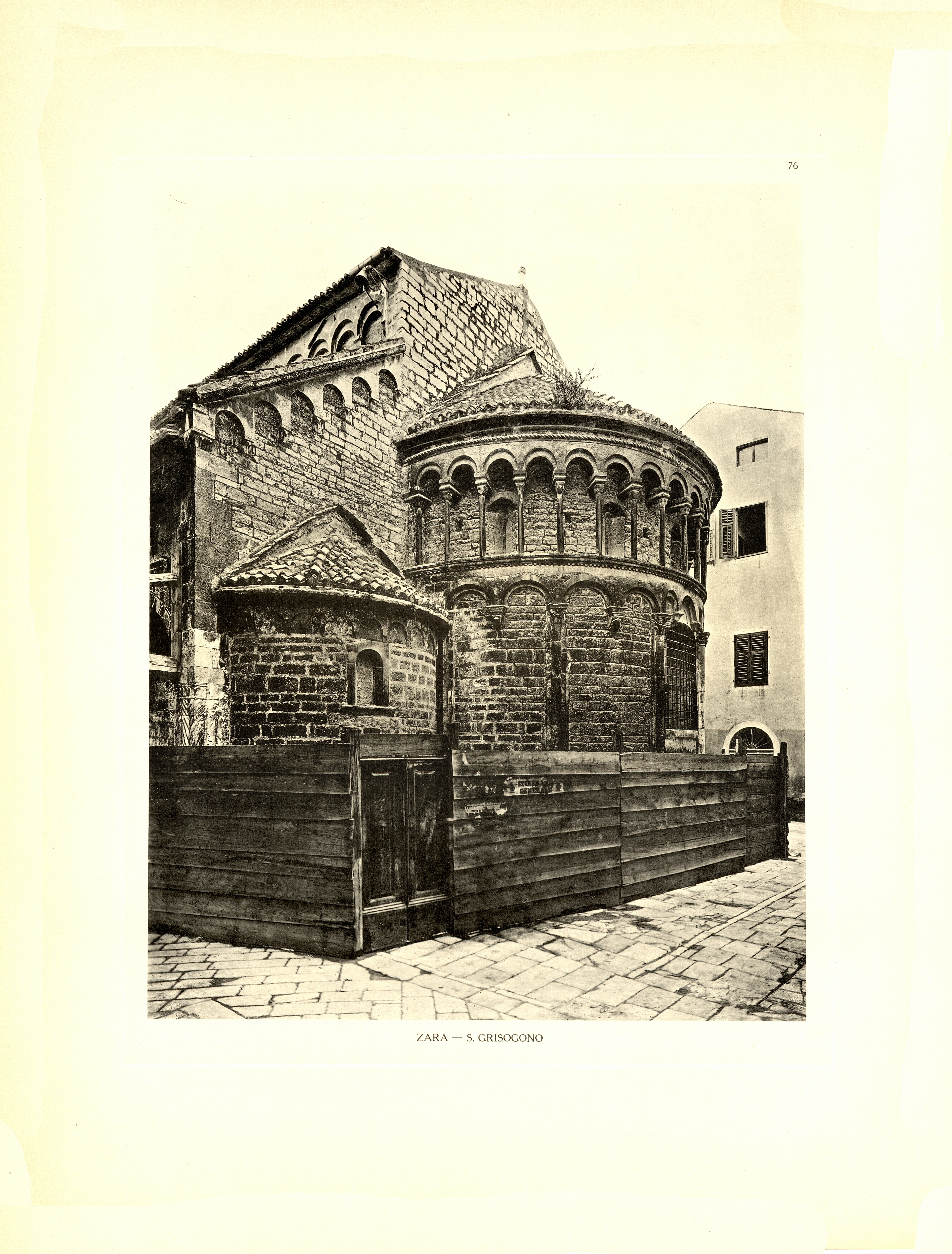 Denkmäler der Kunst in Dalmatien, Herausgegeben von Georg Kowalczyk, mit einer Einleitung von Cornelius Gurlitt. 132 Lichtdrucktafeln nach Naturaufnahmen des Herausgebers Georg Kowalczyk sowie nach Kupfern aus dem Werke von Robert Adam: Ruins of the Palace of the Emperor Diocletian at Spalat(r)o, 1764 Wien, 1910, Verlag von Franz Malota Scanprojekt Bundesdenkmalamt Österreich This scan or this PDF-file was created within the Austrian Wikipedia-project Denkmalpflege Österreich (German only) supported by Wikimedia Germany and Wikimedia Austria as part of the Wikipedia community-project to collect public domain documents from the library of the Heritage Monuments Board of Austria. This document describes or depicts an object which is located in Croatia today. Texts are written in German language. Send requests for uncompressed scans to Hubertl. This work is in the public domain in the United States, and those countries with a copyright term of life of the author plus 100 years or less. This file has been identified as being free of known restrictions under copyright law, including all related and neighboring rights.